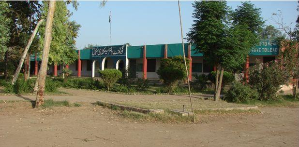 Govt Higher Secondary School Busal